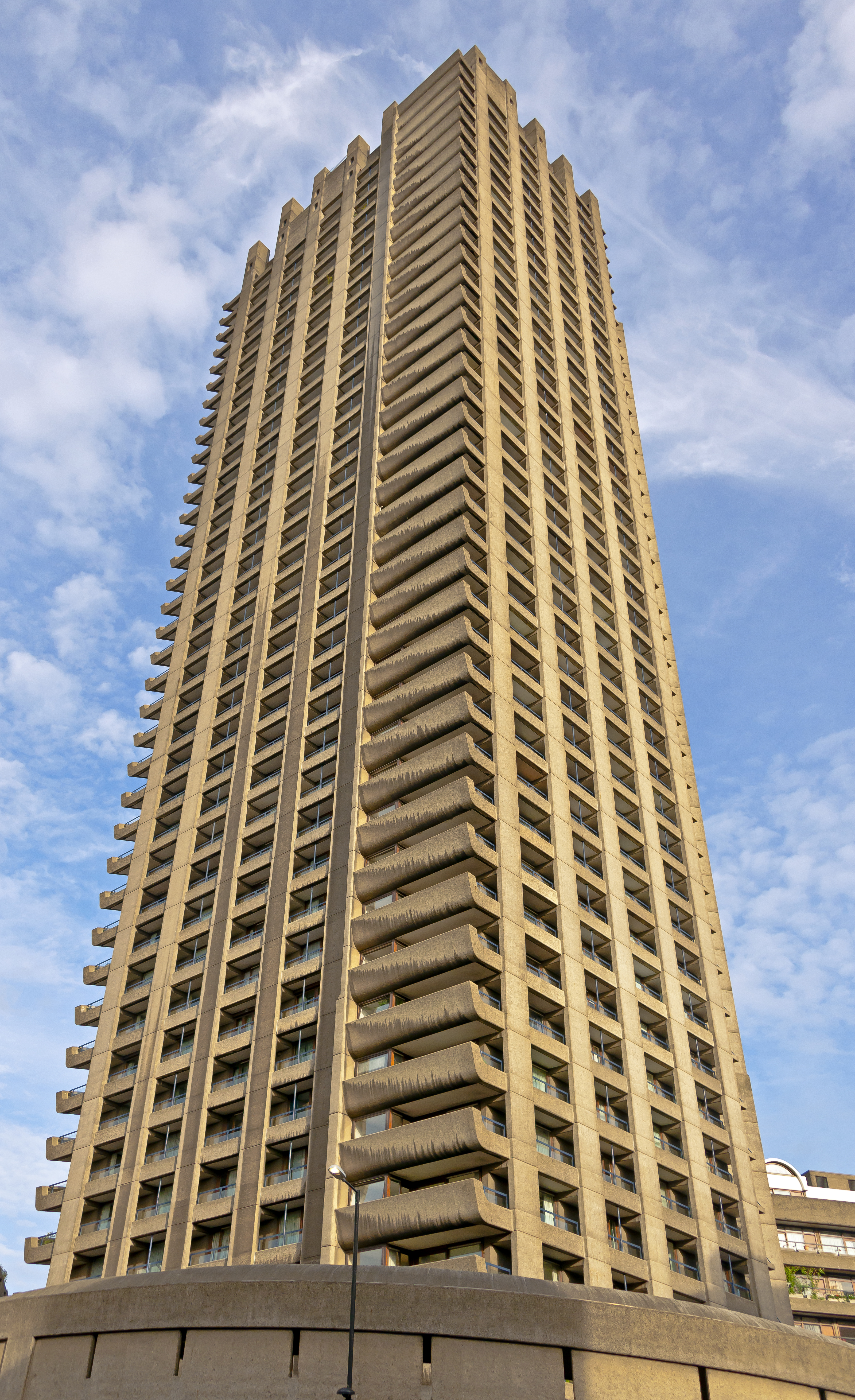 Lauderdale Tower at Barbican Estate, City of London, seen from corner near Barbican tube station in evening light.